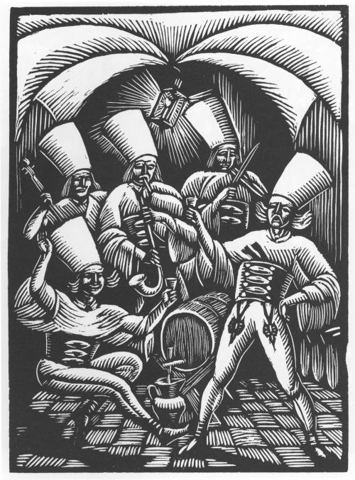 W murowanej piwnicy, (en: In a Brick-Basement), wood engraving, Polish Library, Montreal